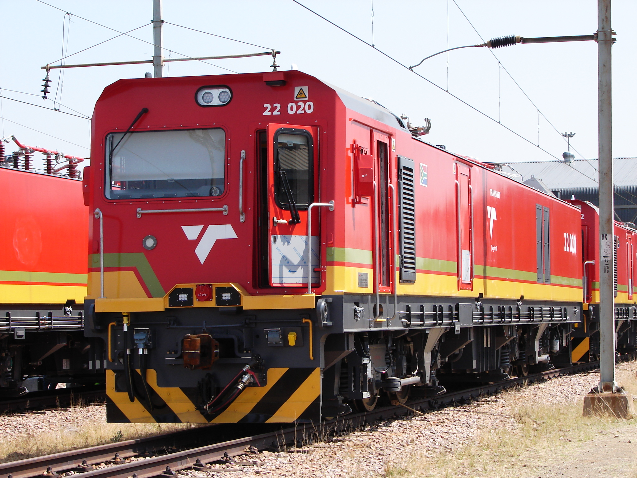 TFR Class 22E no. 22-020Location: Pyramid South